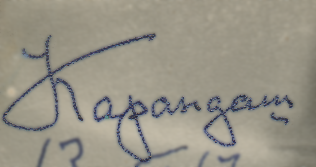 Autograph of Russian clown Karandash